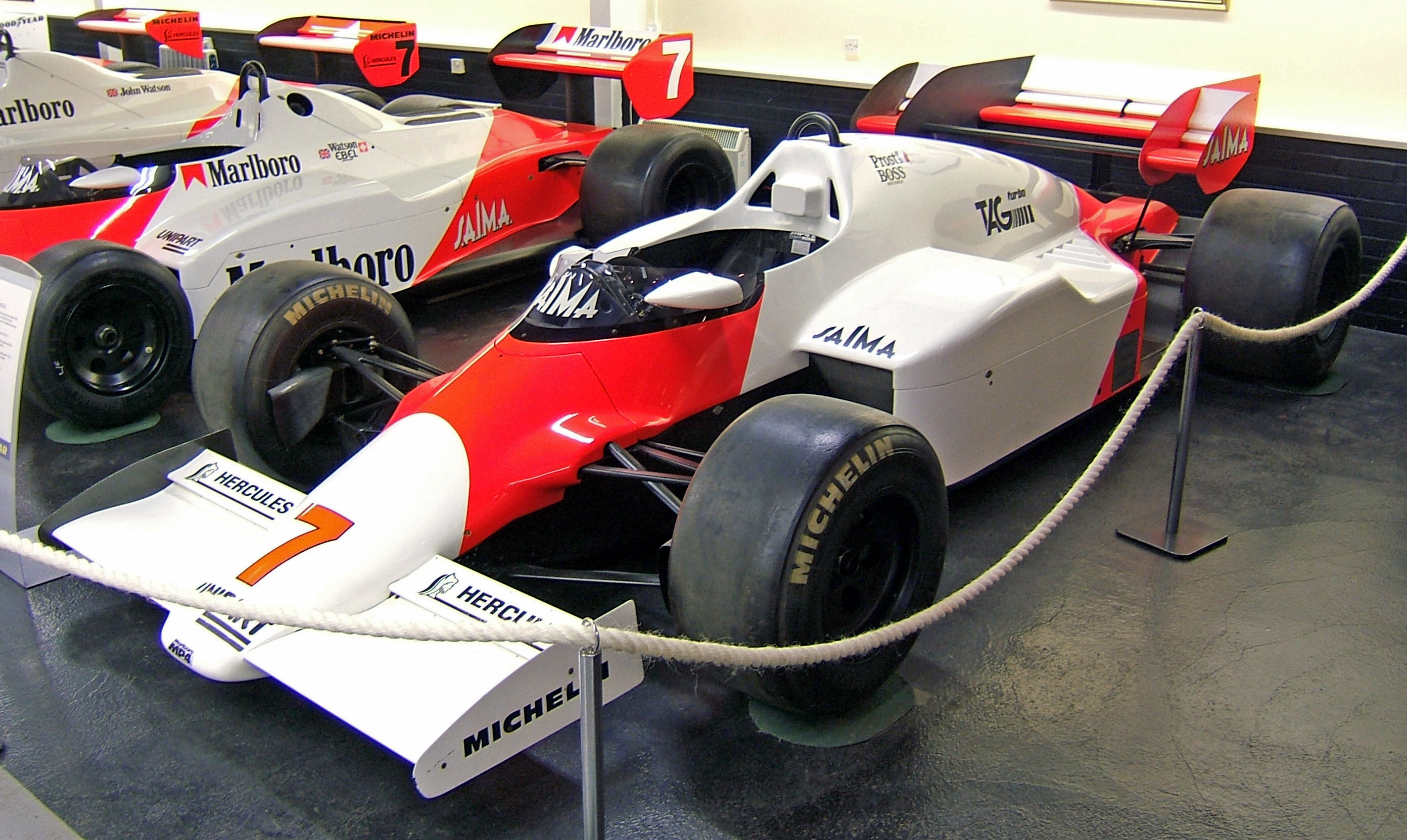 A McLaren MP4/2. In the Donington Grand Prix Collection museum, Leics., UK.